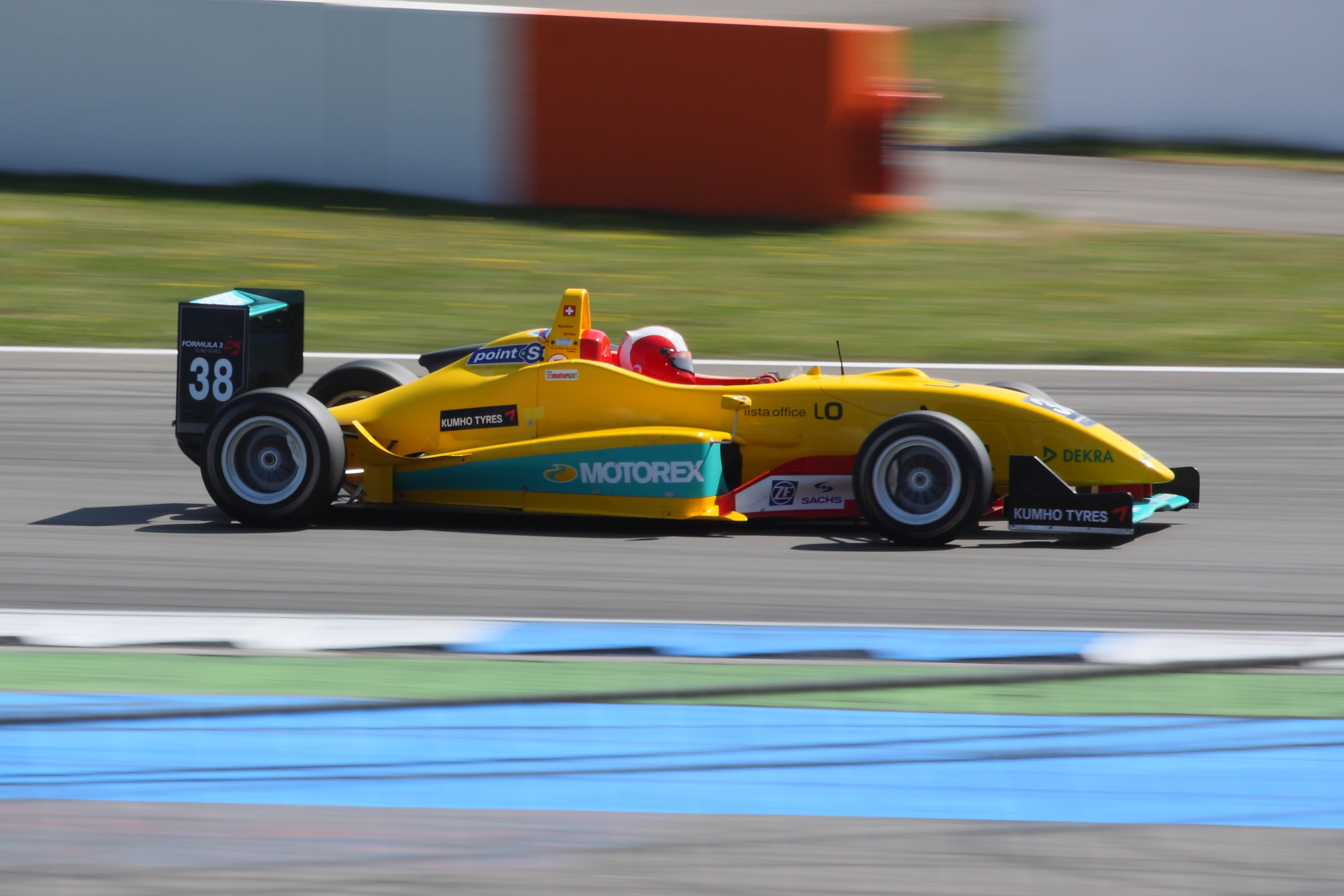 Formula 3 Euroseries, Hockenheimring, #38 Sandro Zeller